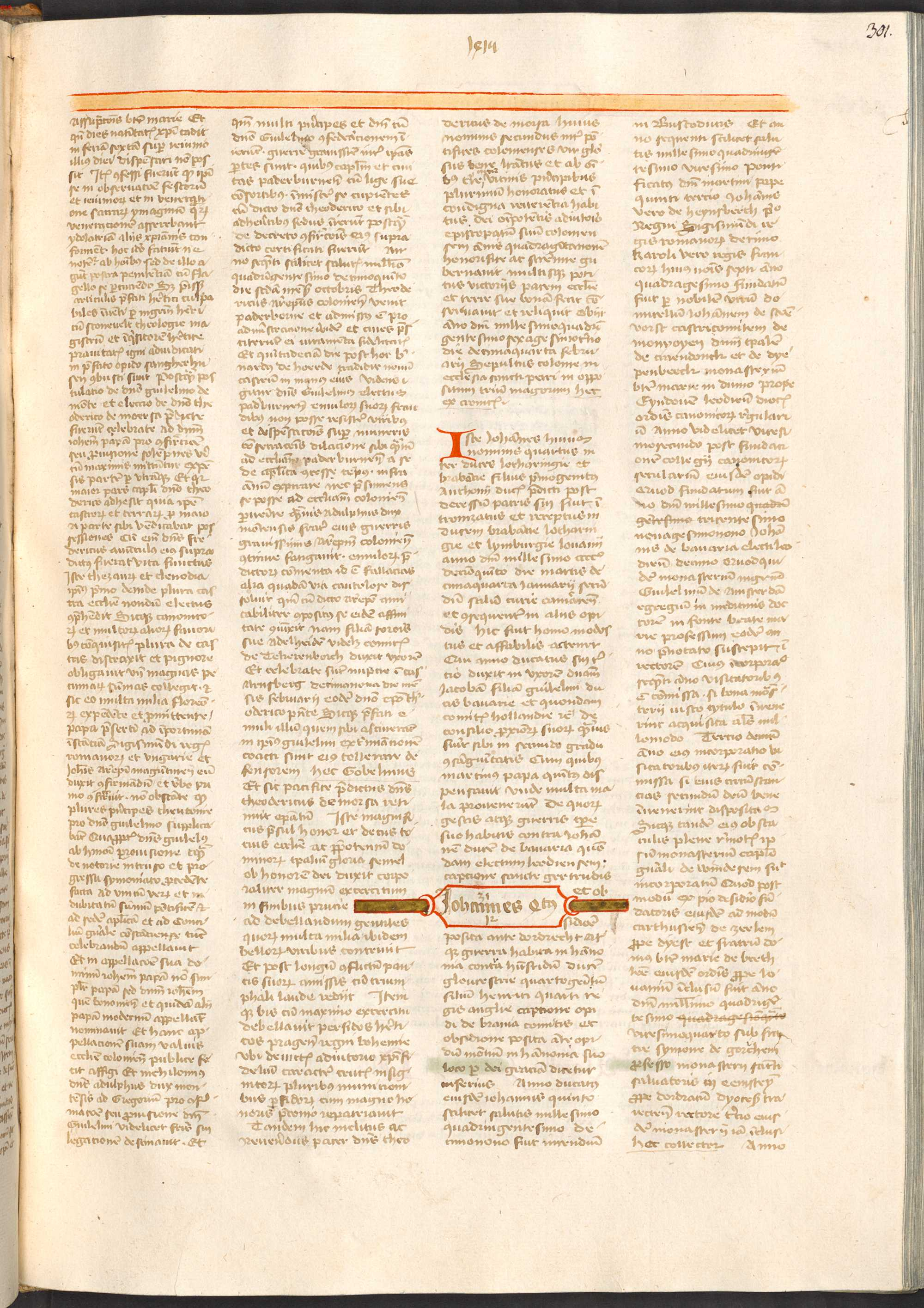 Page from the book "Florarium Temporum", describing the founding of monastery Marienhage in Eindhoven, the Netherlands